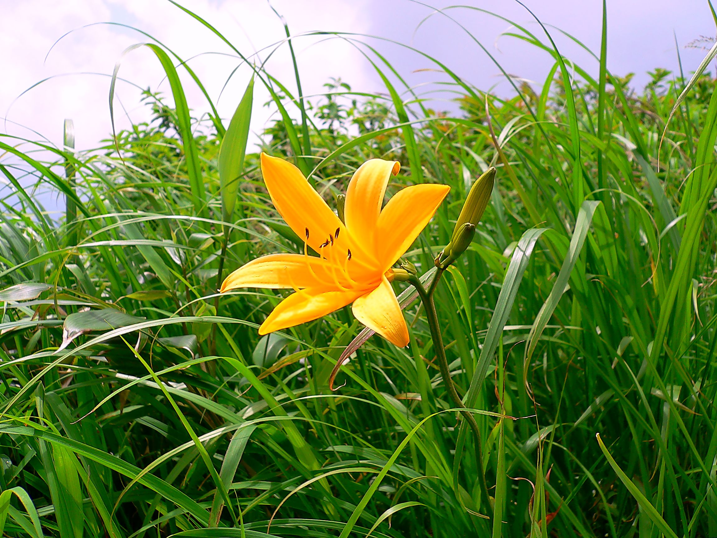 Mt. Sumondake, Nagaoka